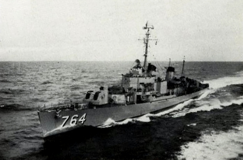 The U.S. Navy destroyer USS Lloyd Thomas (DDE-764) underway, in early 1952. Lloyd Thomas was assigned to Escort Destroyer Division 62, which accompanied the light aircraft carrier USS Cabot (CVL-28) during a deployment to the Mediterranean Sea from 9 January to 26 March 1952.